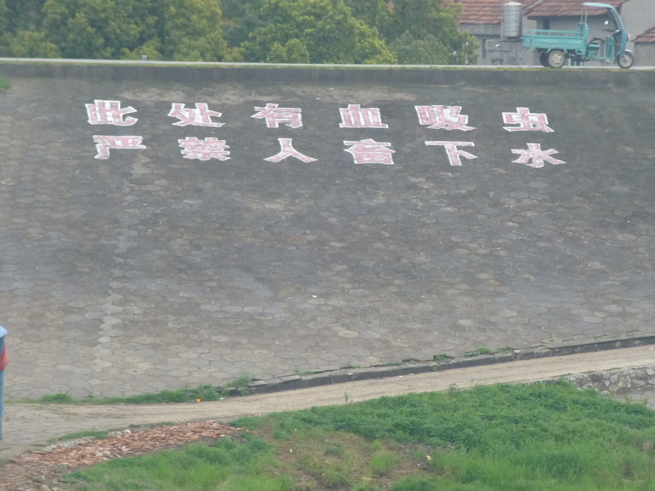 Xintan Town, Honghu City, Hubei: a view from the levee that protects the town from the east and north-east, running along the Sihu Trunk Canal.